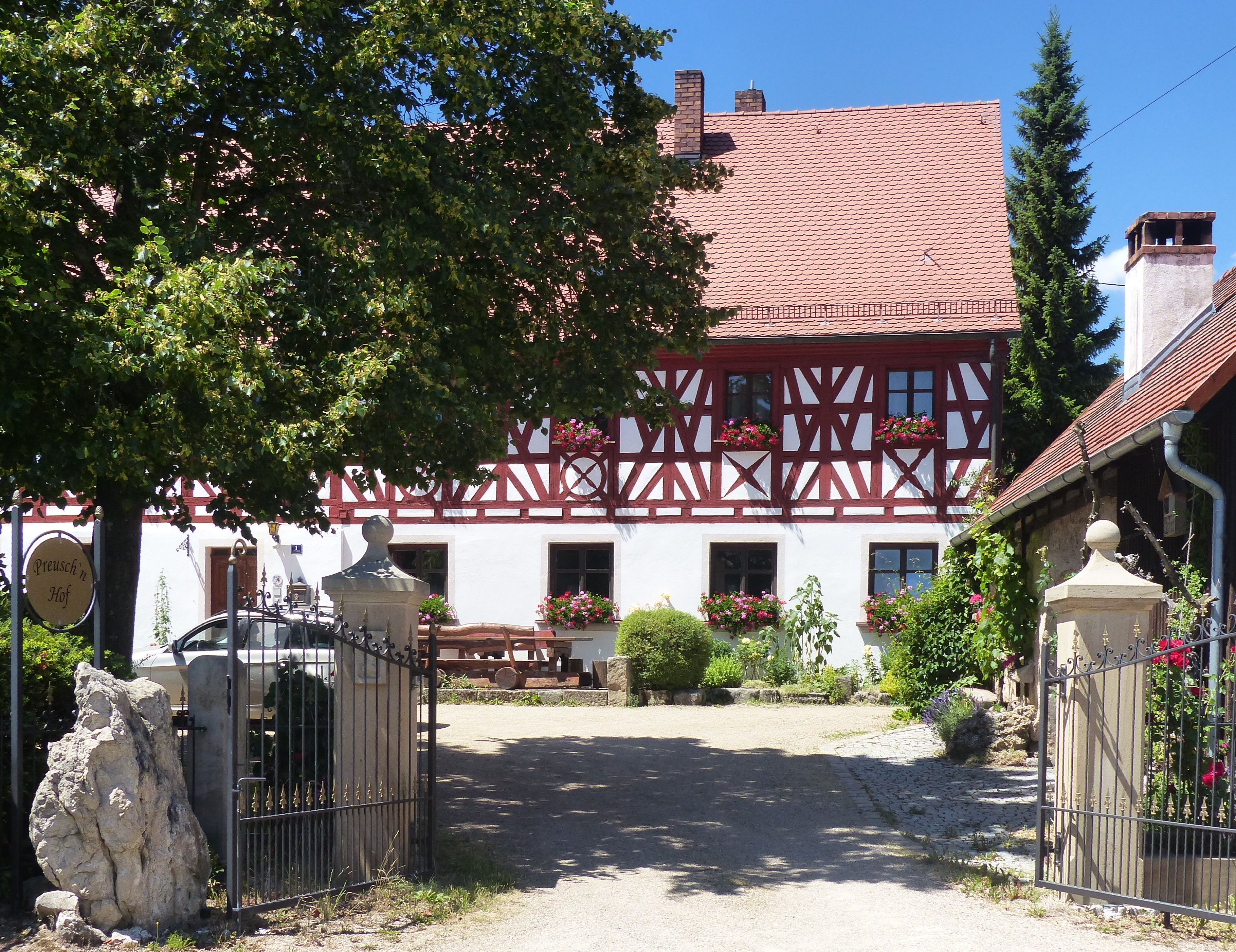 A farmhouse in the village Hundsboden, a district of the municipality of Eggloffstein.